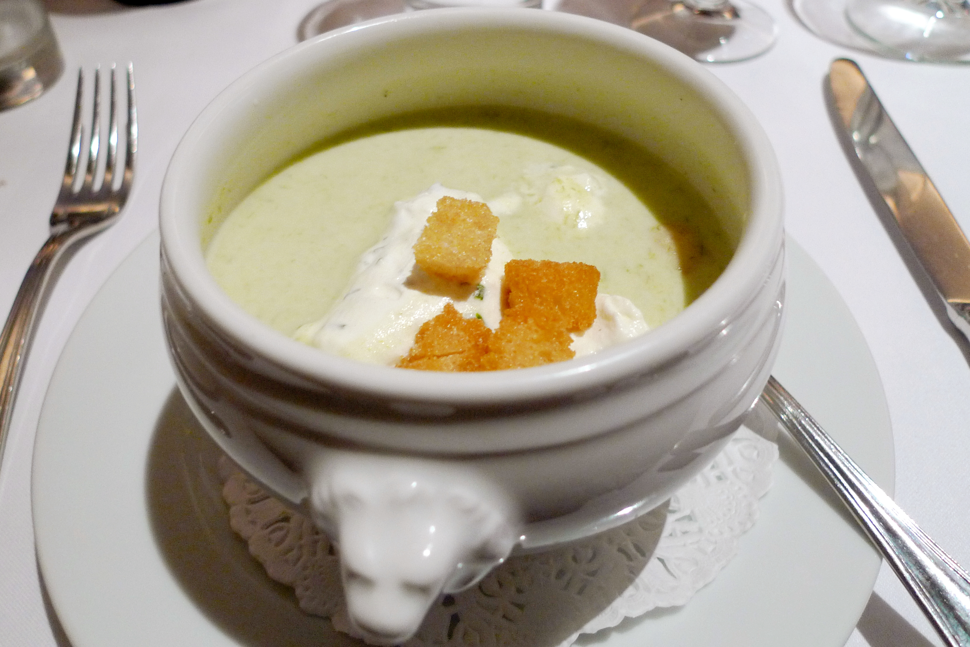 The chilled leek and potato soup (velouté glâcé). Pretty good, quite creamy but not overly so. You can probably tell from the big chunk of cream on top. At Mon Plaisir, Monmouth Street.